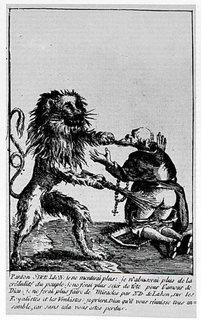 Engraving by Maillart with French text: "Pardon sire Lion: je ne mentirai plus; je n’abuserai plus de la crédulité du peuple; je ne ferai plus scier de tête pour l’amour de Dieu; je ne ferai plus faire de miracles par N.D. de Laken, sur les Royalistes et les Vonckistes: je priera Dieu qu’il vous réunisse tous ensemble, car sans cela vous estes perdus"